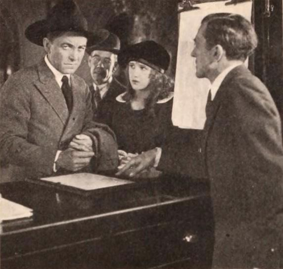 Still from the American western film Hearts Up (1921) with Harry Carey and Mignonne Golden (1904 – 1997), on page 76 of the January 15, 1921 Exhibitors Herald.